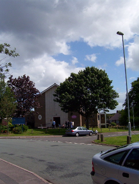 St. Andrew's Church in the Westlands. Situated at the top of Pilkington Avenue on the north side of the square